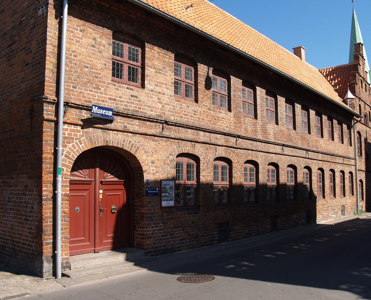 Helsinore (Helsingør) city museum